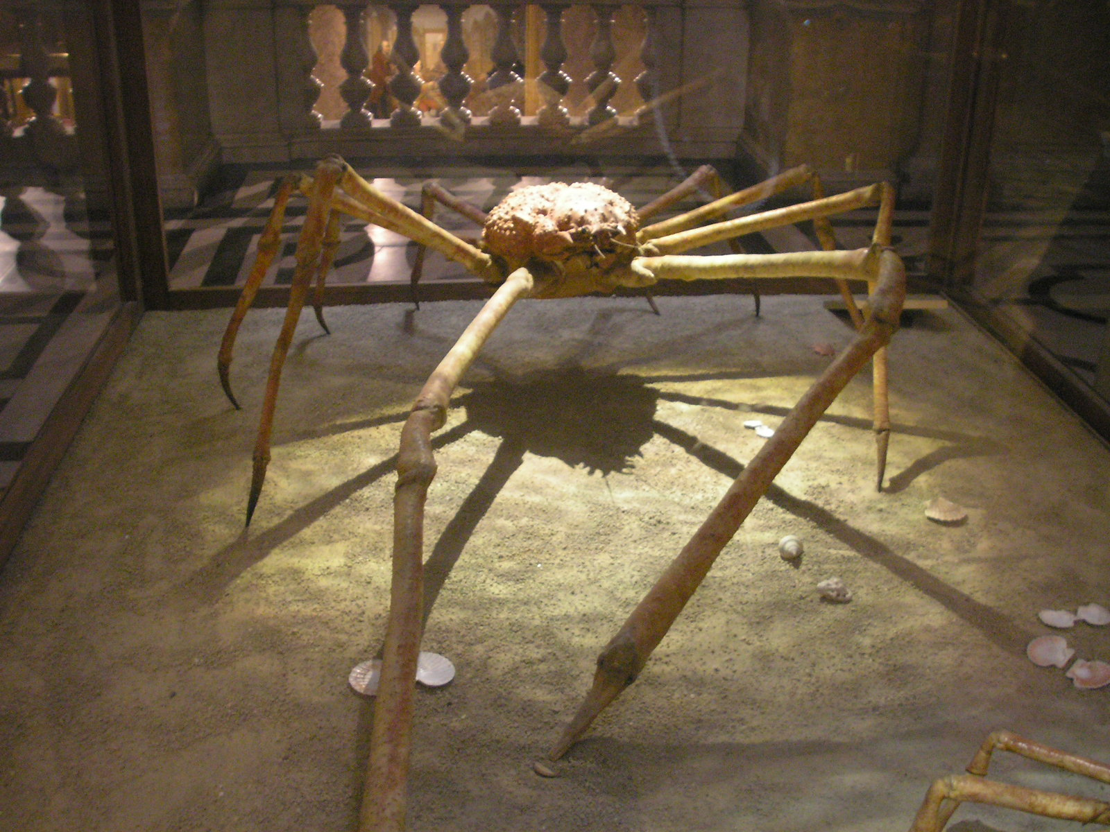 Giant crab from off the bay of Tokyo. Apparently a gift by the Meiji Emperor to Emperor Franz Joseph I of Austria. In the Naturhistorisches Museum in Vienna